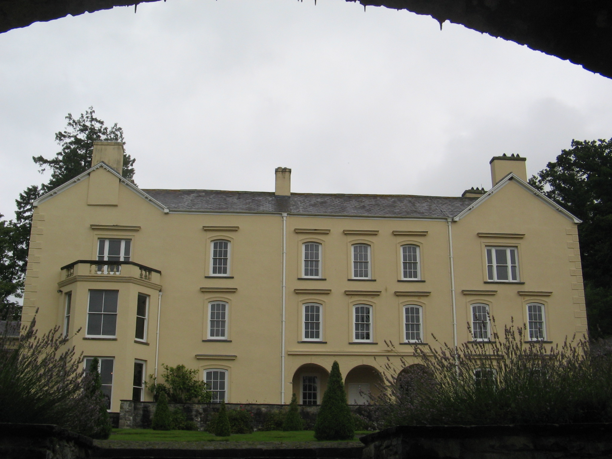 aberglasney house